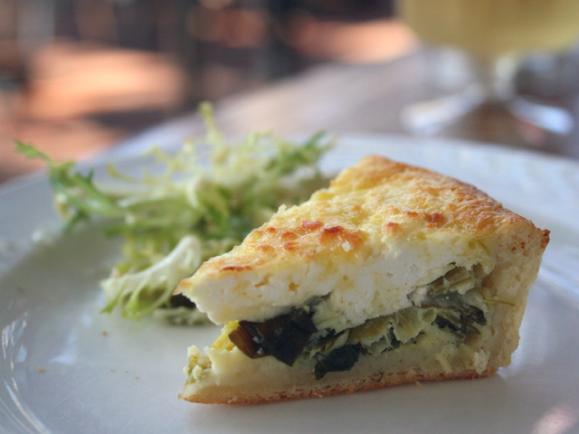 Tarte Flamiche at Lilly's